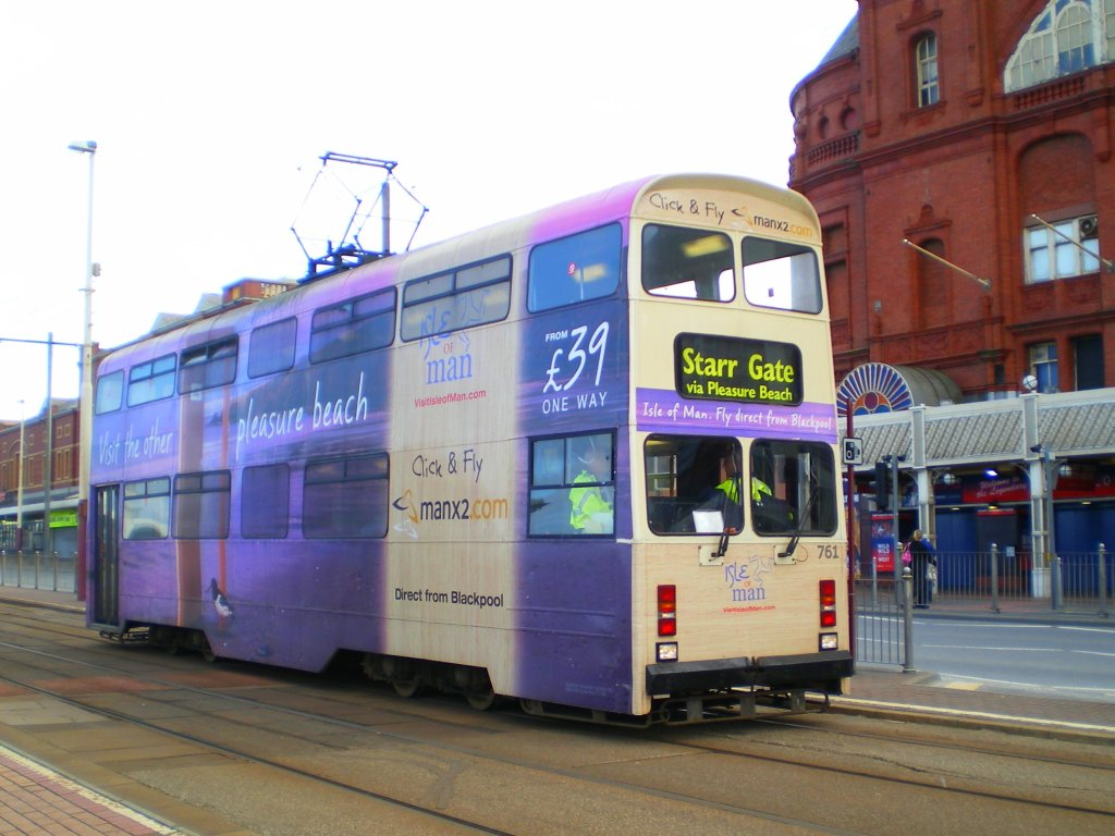 A double decker tram in Blackpool, Lancashire, Great Britain.